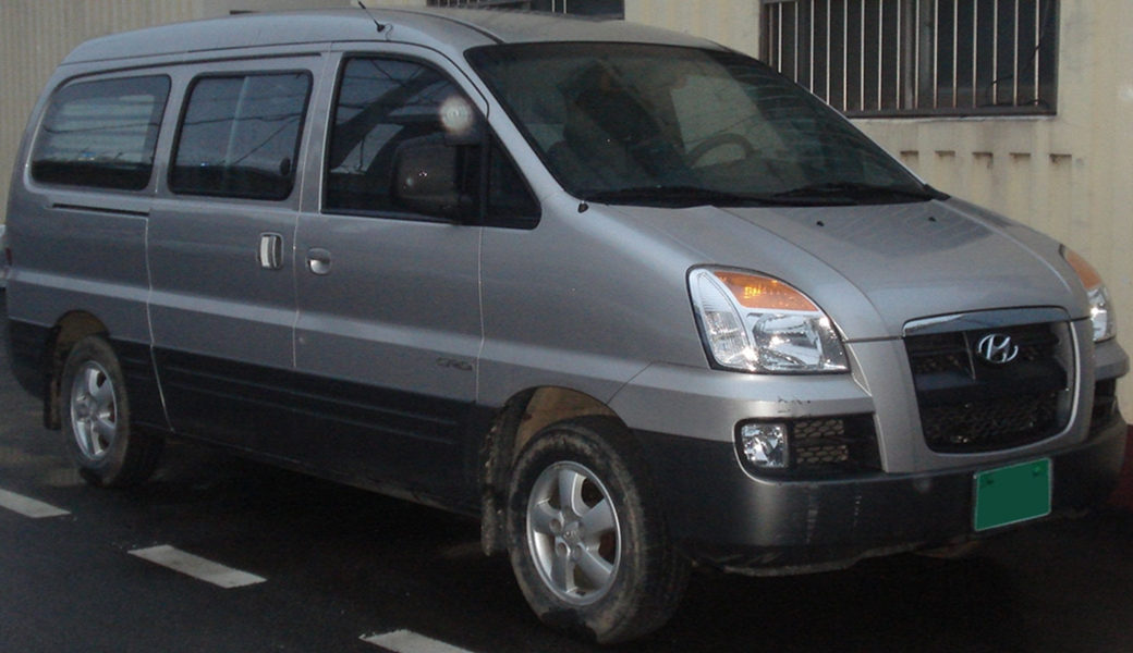 Hyundai Starex